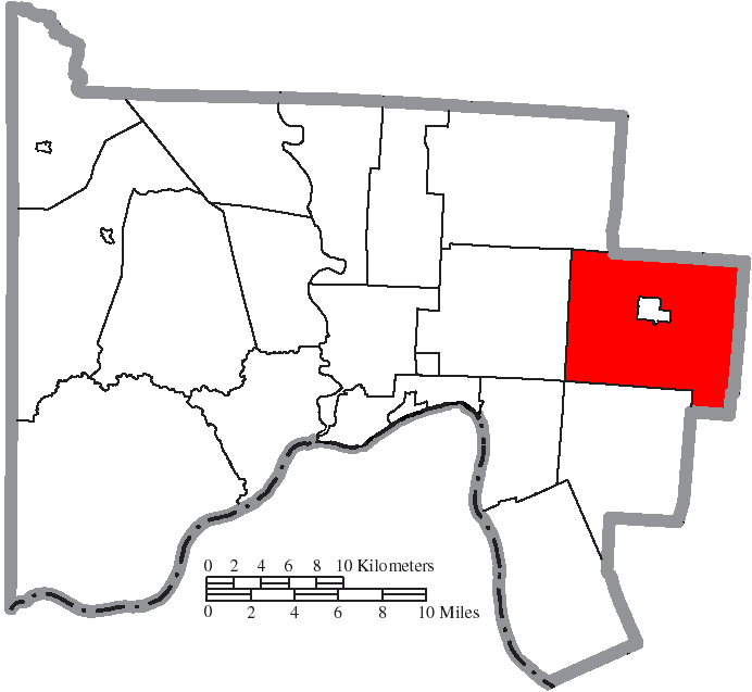 Map of the municipal and township boundaries of Scioto County, Ohio, United States, as of the 2000 census, with the location of Bloom Township highlighted. Township borders are shown only in unincorporated areas in order to differentiate incorporated and unincorporated areas more clearly.